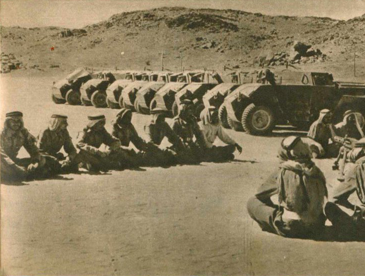 Armored Corps (Royal Saudi Land Forces)